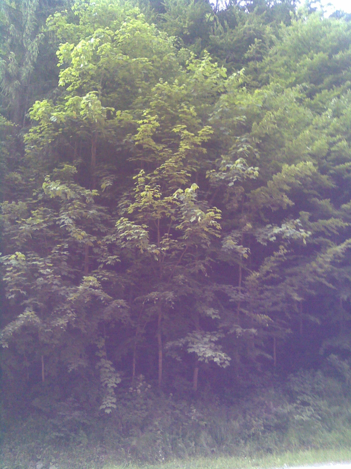 Sycamore maple (Acer pseudoplatanus) in Parâng Mountains group, Transylvania.